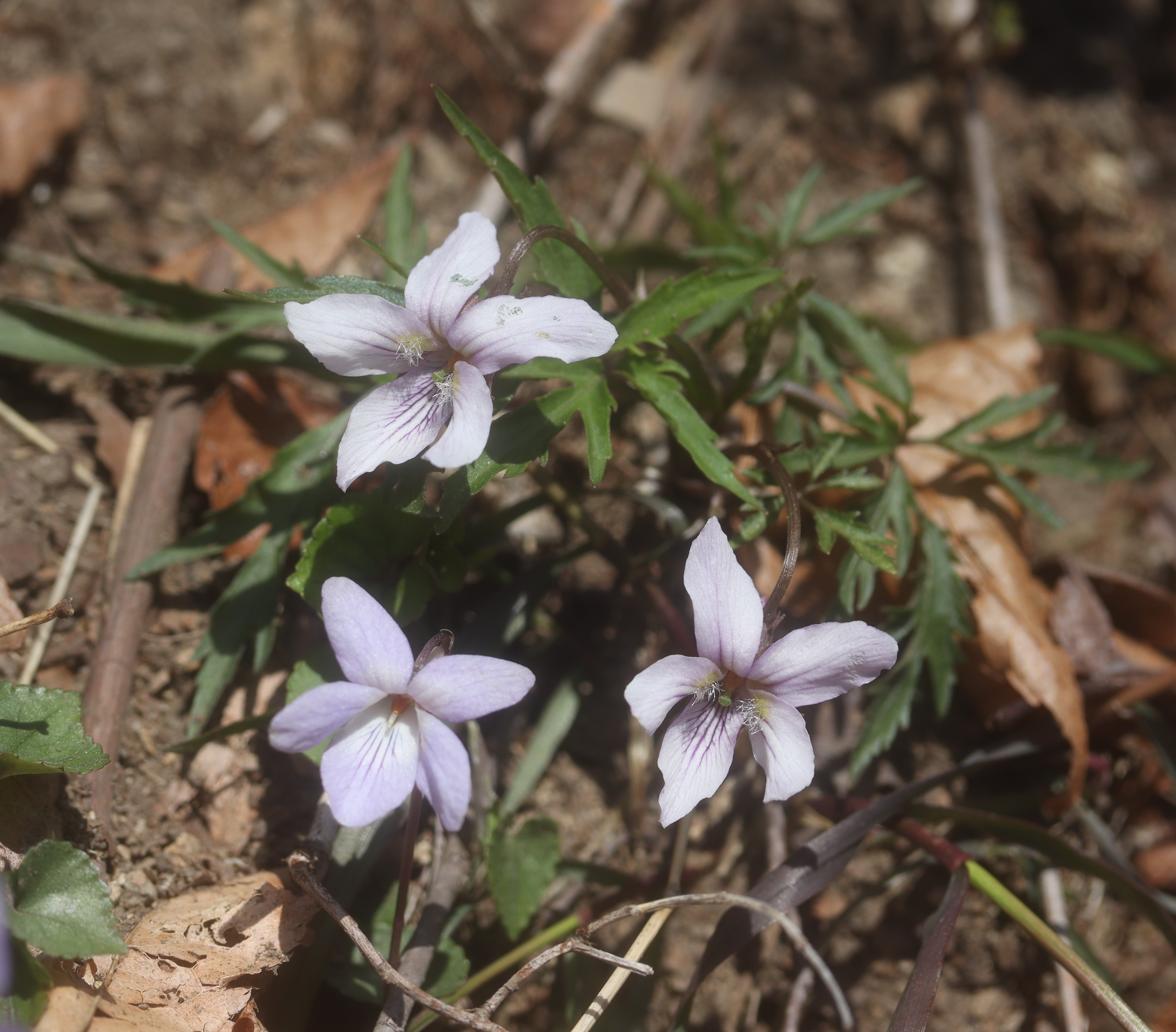 Viola eizanensis and Viola grypoceras in Mount Koga, Seki, Gifu Prefecture, Japan.